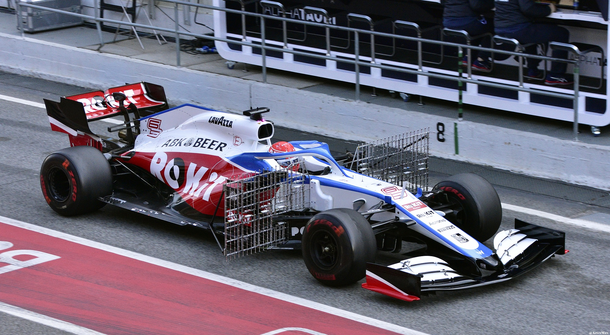 Formula 1 Pre-Season Testing 2020 / Circuit de Barcelona / Williams FW43 / George Russell / GBR / ROKiT Williams Racing